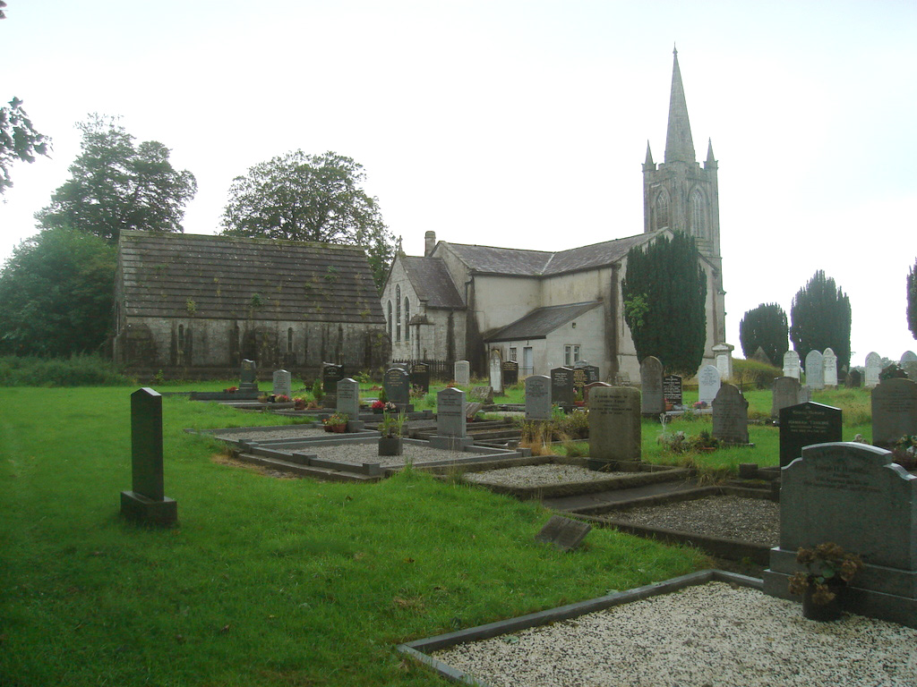 Kiltegan Church of Ireland parish church with the large mausoleum of the Hume family